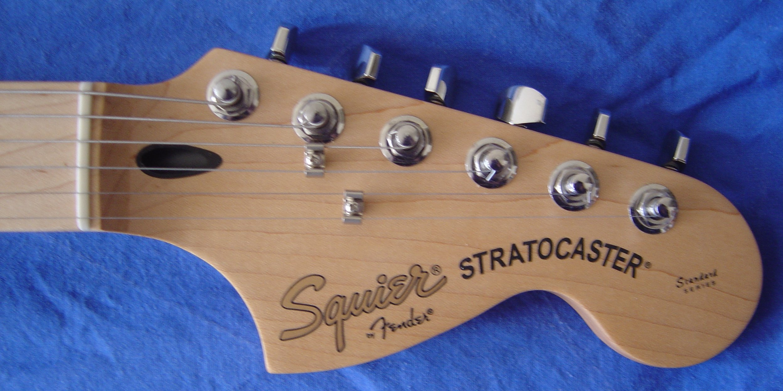 Machine head of a Squier Stratocaster (c) 2004 David Monniaux